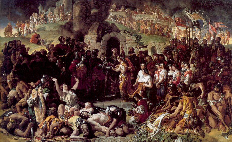 Painting of the marriage of Aoife and Strongbow by Daniel Maclise. Iconic image of the Norman Invasion of Ireland.